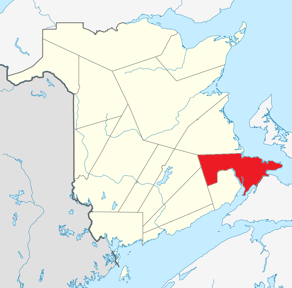 Map of New Brunswick highlighting Westmorland County